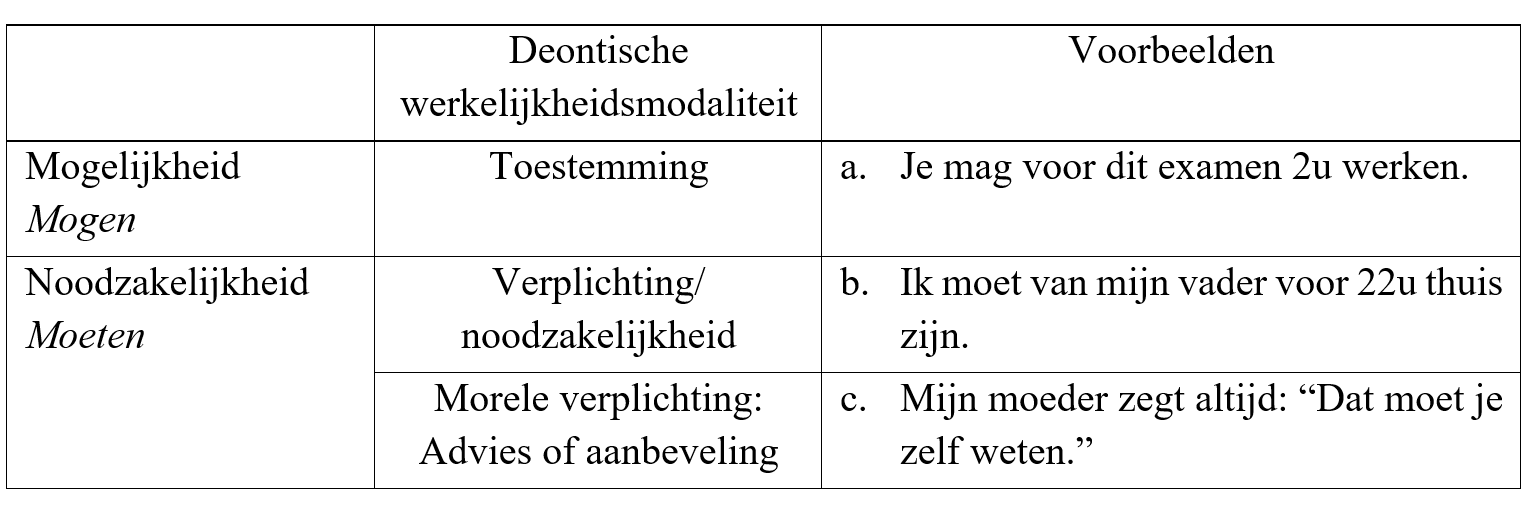 Deontic modality with examples in Dutch